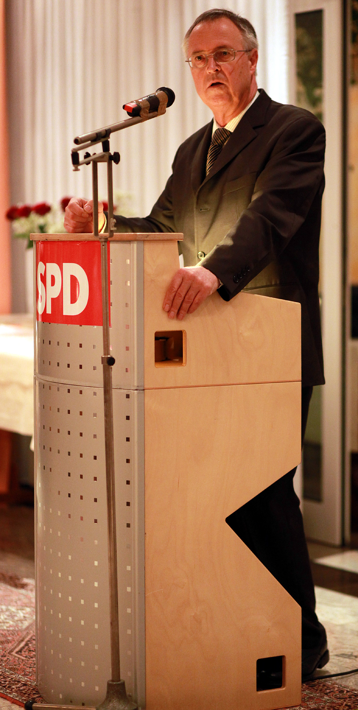 Hans Eichel, Member of the Bundestag, former State Premier of Hesse (Germany) and former Minister of Finance.